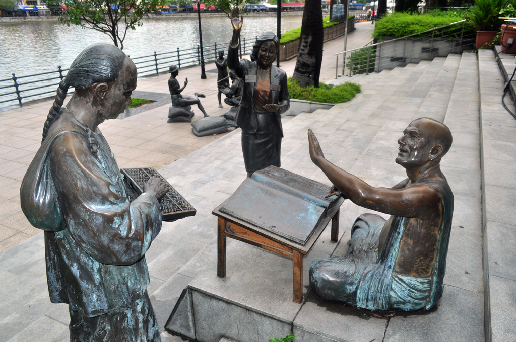 From Chettiars to Financiers (2002) by Chern Lian Shan in front of the Asian Civilisations Museum along the Singapore River.